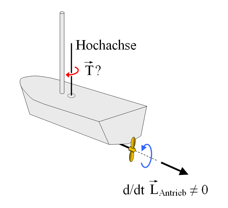 Propeller walk caused by change of angular momentum of the propulsion system?